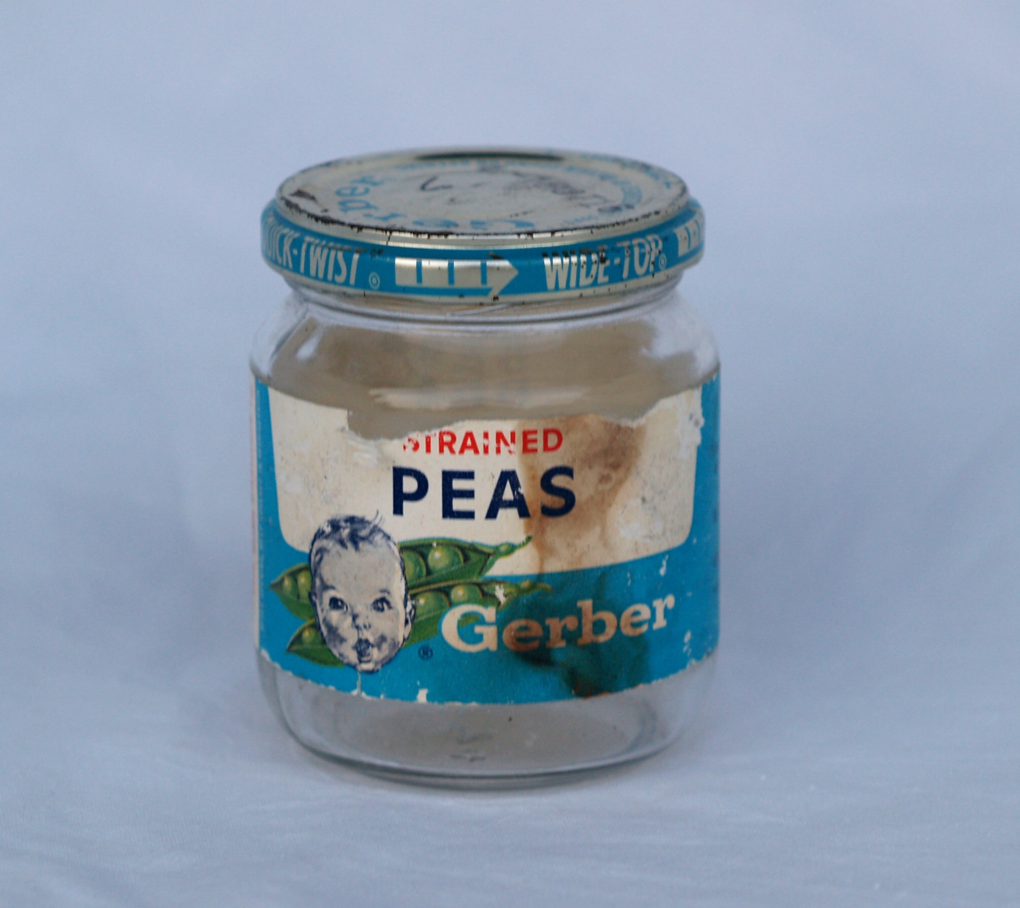 Glass jar of Gerber Strained Peas baby food,date unknown.